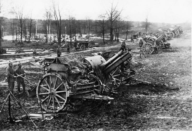 German 15 cm schwere Feldhaubitze 13 battery in position at the Battle of Arras, 1917.